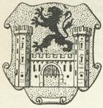 Coat of arms of Sagan (nowadays: Żagań, lubuskie voivodeship, Poland) used in XVI Century